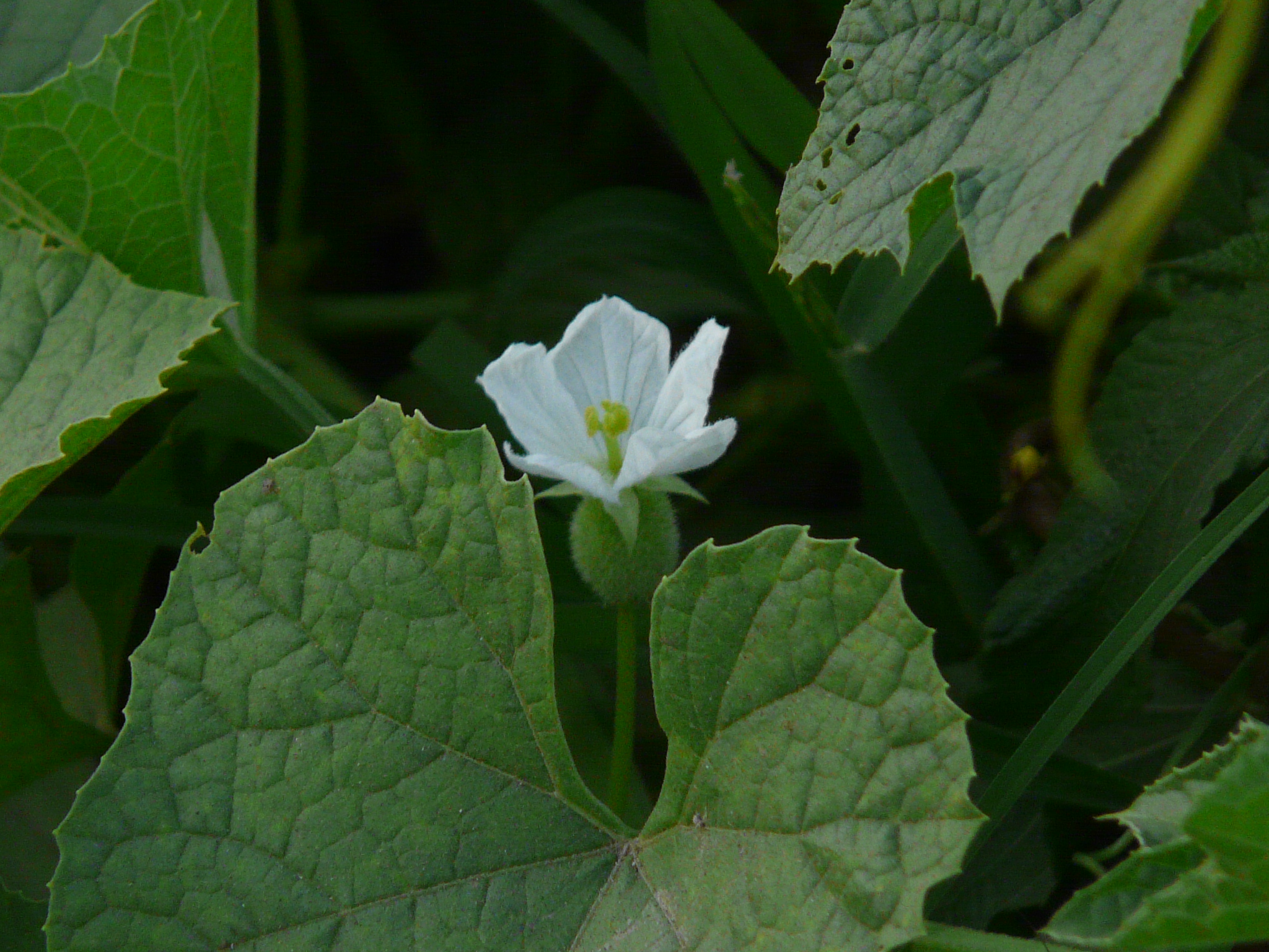 Cucurbitaceae (pumpkin, or gourd family) » Luffa echinata LUF-fuh -- from the Arabic word lufah or lufa ek-in-AY-tuh -- prickly commonly known as: bitter luffa, bristly luffa, rag gourd • Bengali: deyatada • Hindi: बिन्दाल bindaal, घागरबेल ghagarbel, ककोड़ा kakora • Kannada: ದೈವದಾಳಿ daivadaali • Marathi: देवदाली devadali, देवडांगरी devadangari, कुकडवेल kukadvel, कुंजलता kunjalata • Sanskrit: जीमूतः jimuta • Tamil: பேய்ப்பீர்க்கு pey-p-pirkku • Telugu: panibira • Urdu: بندال bindaal Native to: northern tropical Africa, Pakistan, India, Bangladesh References: Flowers of India • eFlora • IMPGC • ENVIS - FRLHT • DDSA